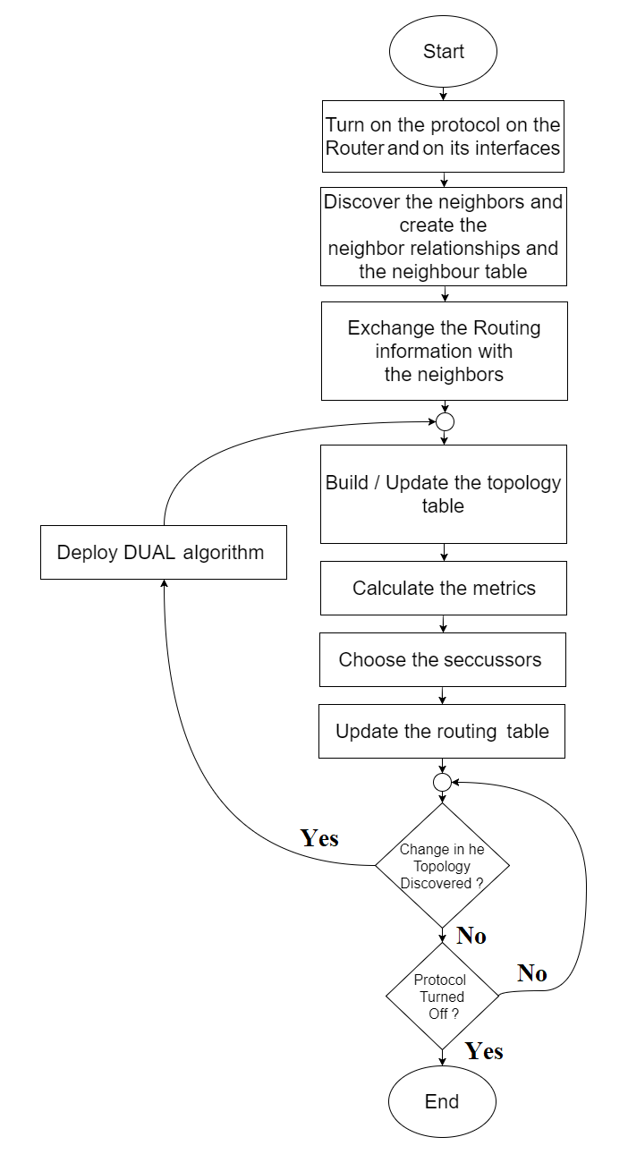 The EIGRP Algorithm.